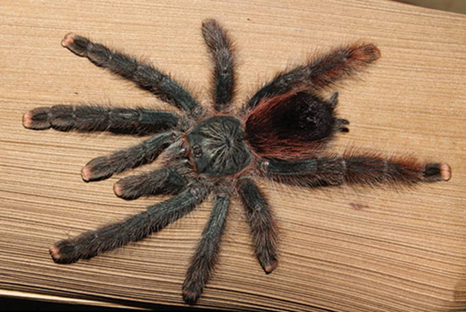 Avicularia avicularia female, morphotype 1